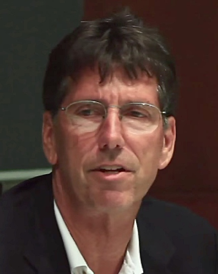 U.S. economist and sportscar entrepreneur Warren Mosler at a 2012 seminar at Columbia University.